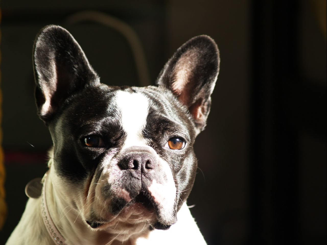 A portrait of a black-and-white French Bulldog.